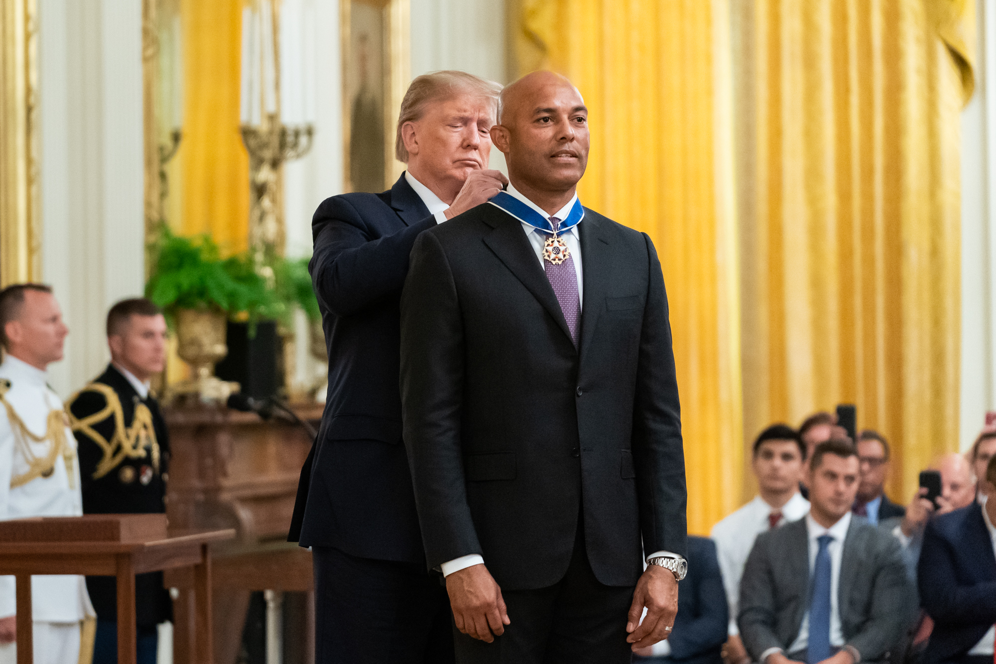 President Donald J. Trump presents the Presidential Medal of Freedom to Mariano Rivera Monday, Sept. 16, 2019, in the East Room of the White House. (Official White House Photo by Andrea Hanks)